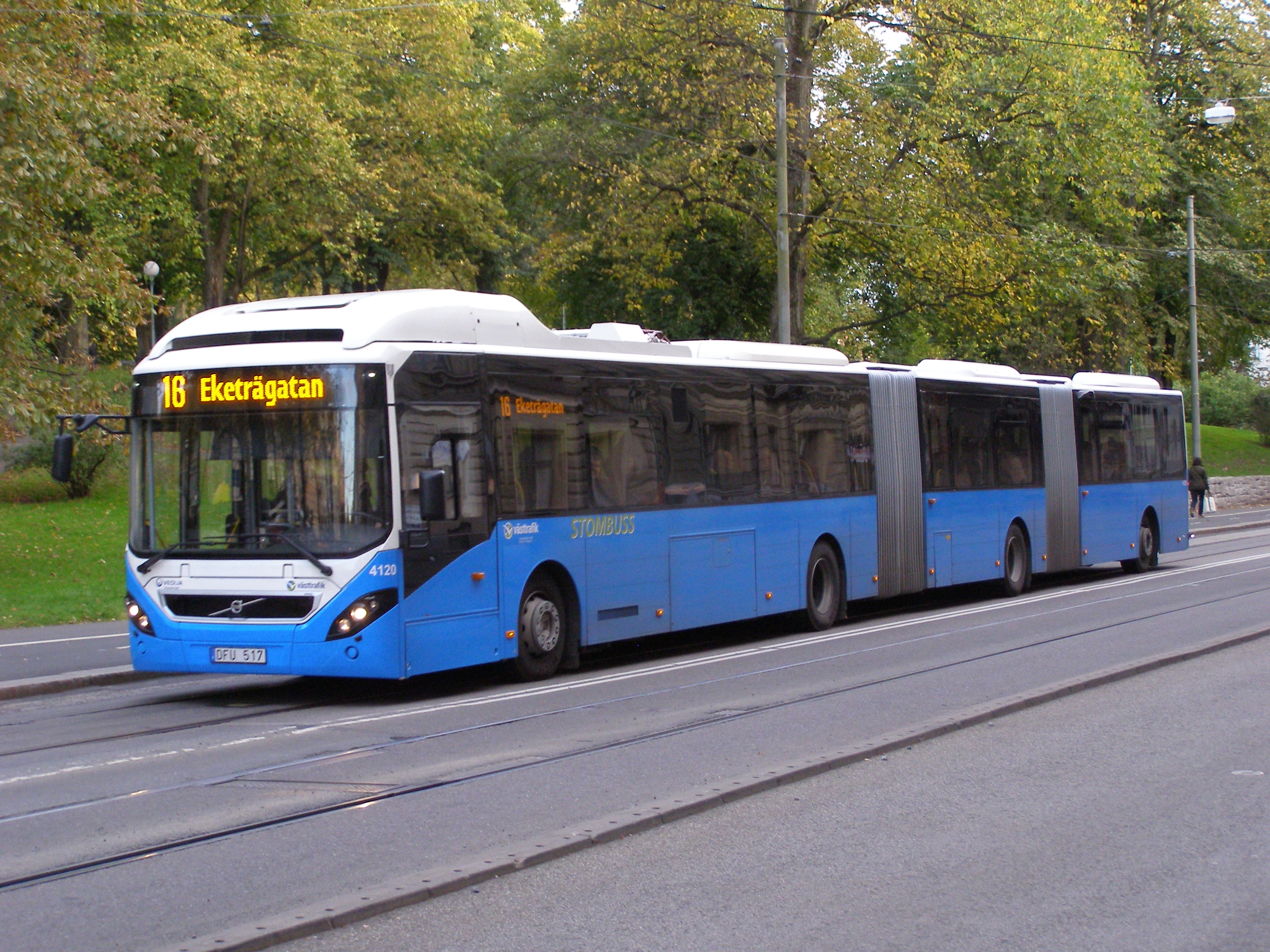 Gothenburg - bi-articulated Volvo bus #4120 on line No. 16